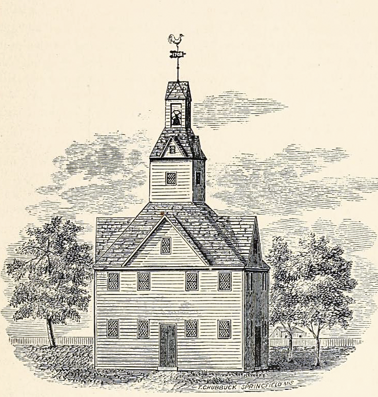 Engraving of the first meetinghouse of West Springfield, which, built in 1702, served as its church and public space during the 18th century.